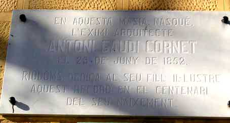 This is the plaque that was placed in the "Mas de la Calderera" in Riudoms, the house where the architect Antoni Gaudí i Cornet was born, on the occasion of 100 years of his birth.